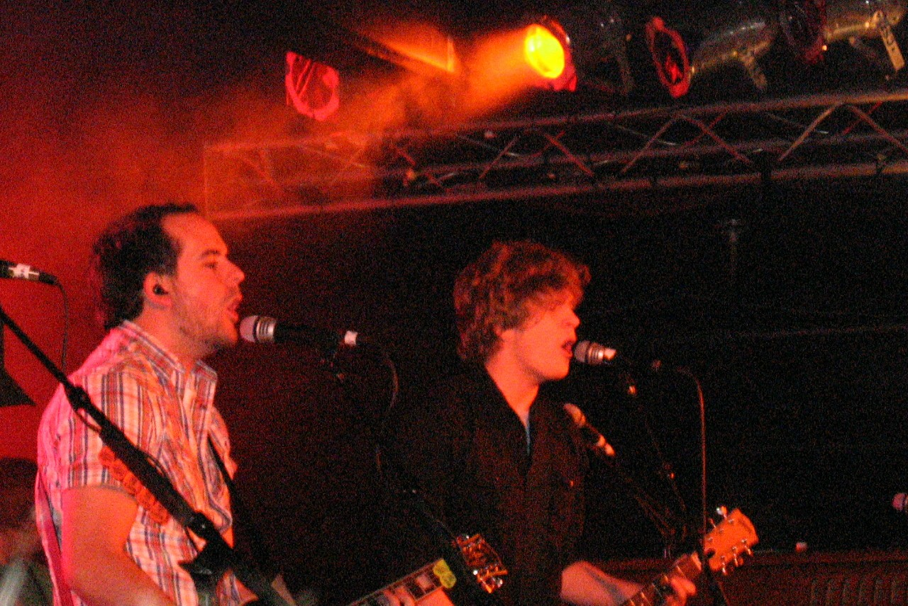 This picture is of Lead Guitarists Matt Hoopes and Matt Thiessen of Relient K. This was taken at the Sonar Theatre in Baltimore, Maryland in May 2007.